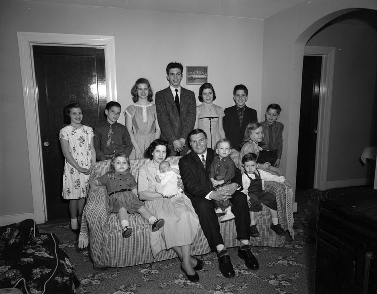 Title: Catholic Virginian, family group Creator: Adolph B. Rice Studio Date: January 31, 1959 Identifier: Rice Collection 2177B Format: 1 negative, safety film, 4 x 5 in. Repository: Library of Virginia, Prints and Photographs, 800 E. Broad St., Richmond, VA, 23219, USA, :8881/R